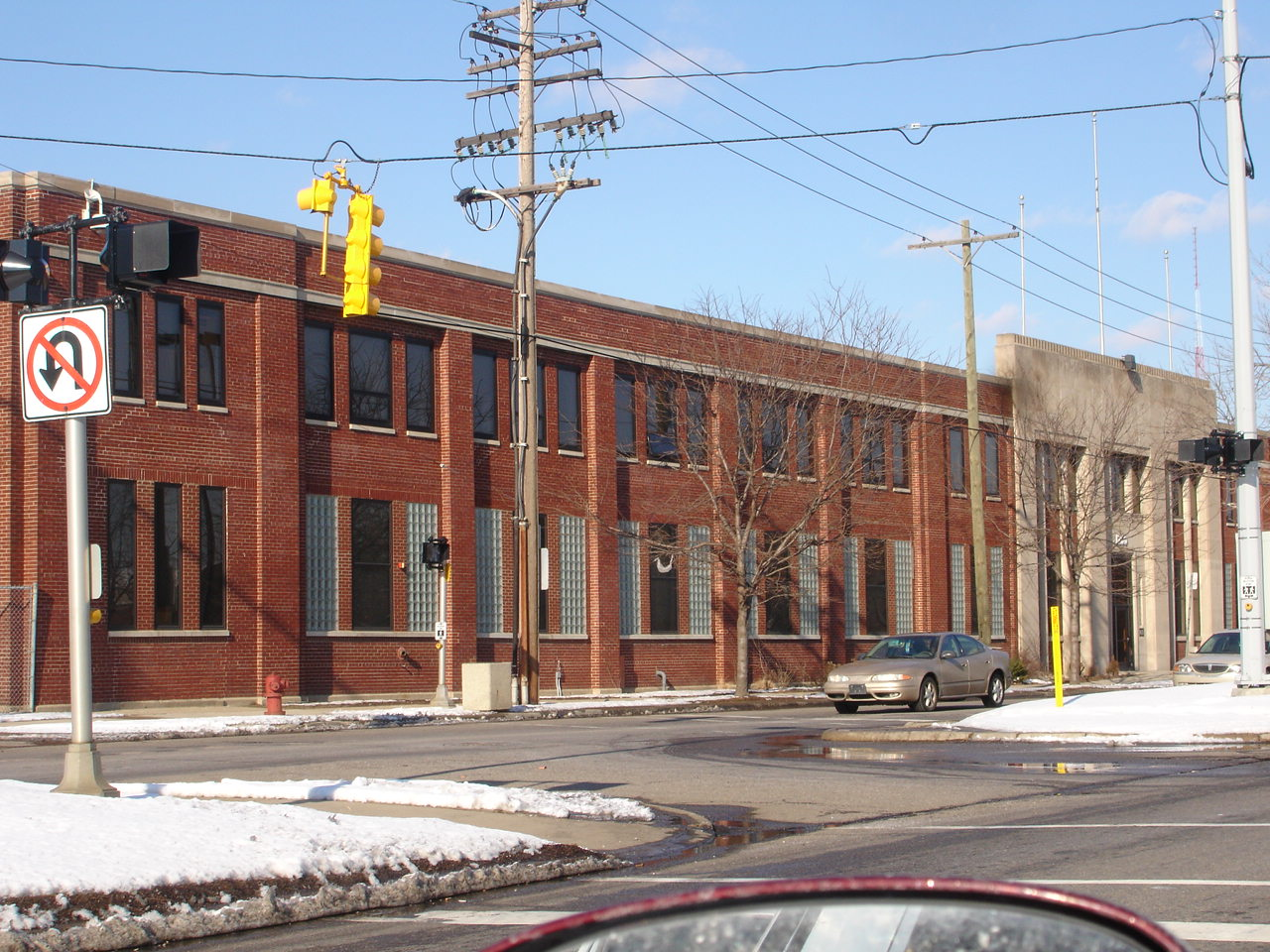 Focus HOPE Machinist Training Institute Self Taken Rayswizzy (talk) 02:26, 3 March 2008 (UTC)